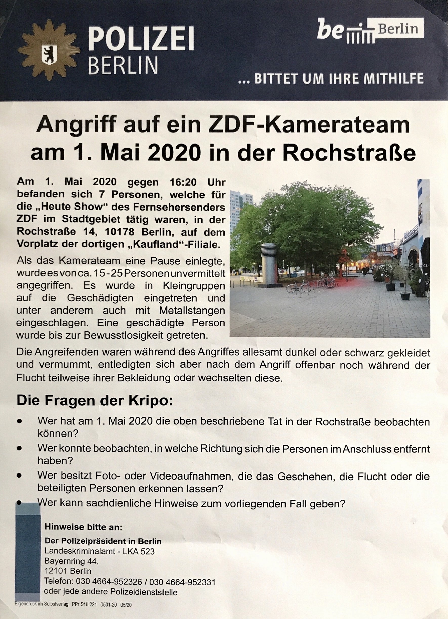 Bitte um Mithilfe der Polizei Berlin.